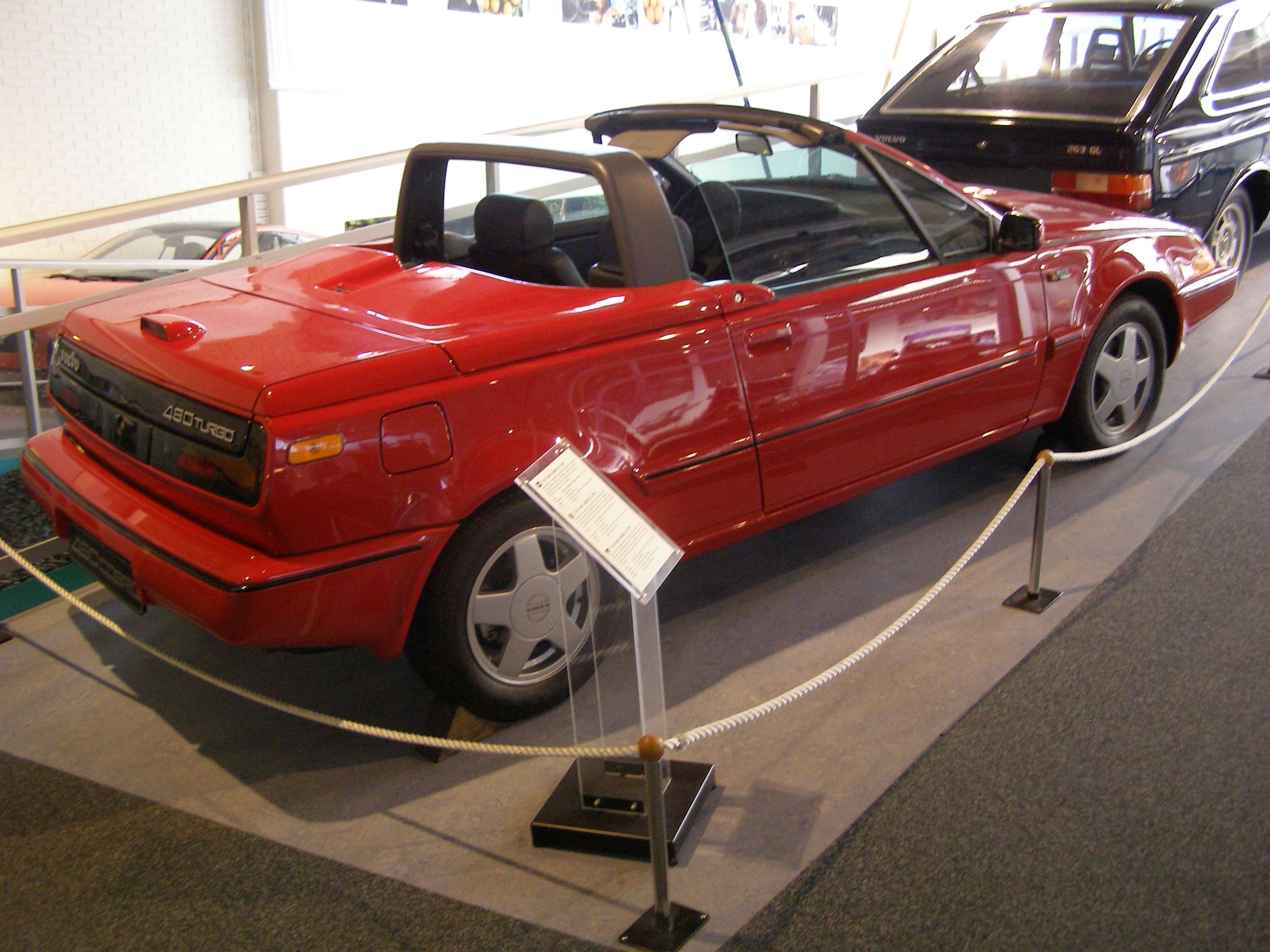 Gothenburg - Volvo Museum - 1990 Volvo 480 Cabriolet prototype